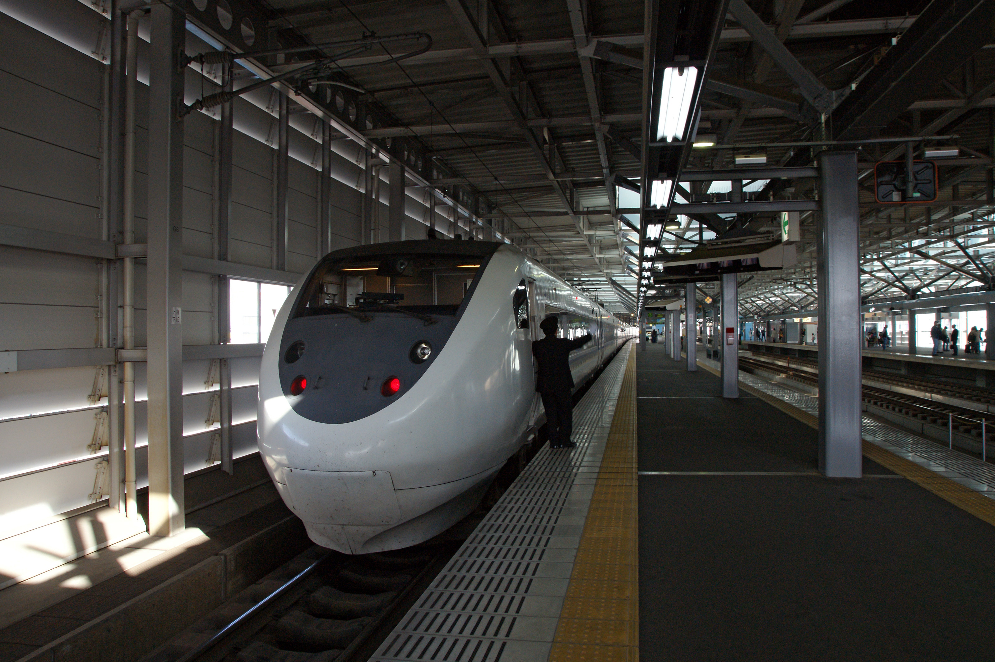 JR West Fukui Station, Fukui, Fukui prefecture, Japan